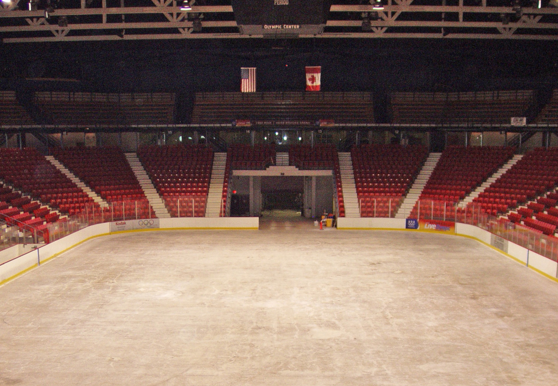 The interior of the Herb Brooks Arena, formerly known as the Olympic Center until 2005, at Lake Placid, New York, USA.